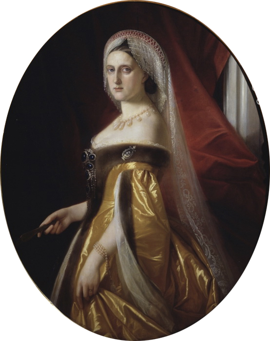 Duchess Marie of Leuchtenberg (1819–1876), née Grand Duchess Maria Nikolaevna of Russia.